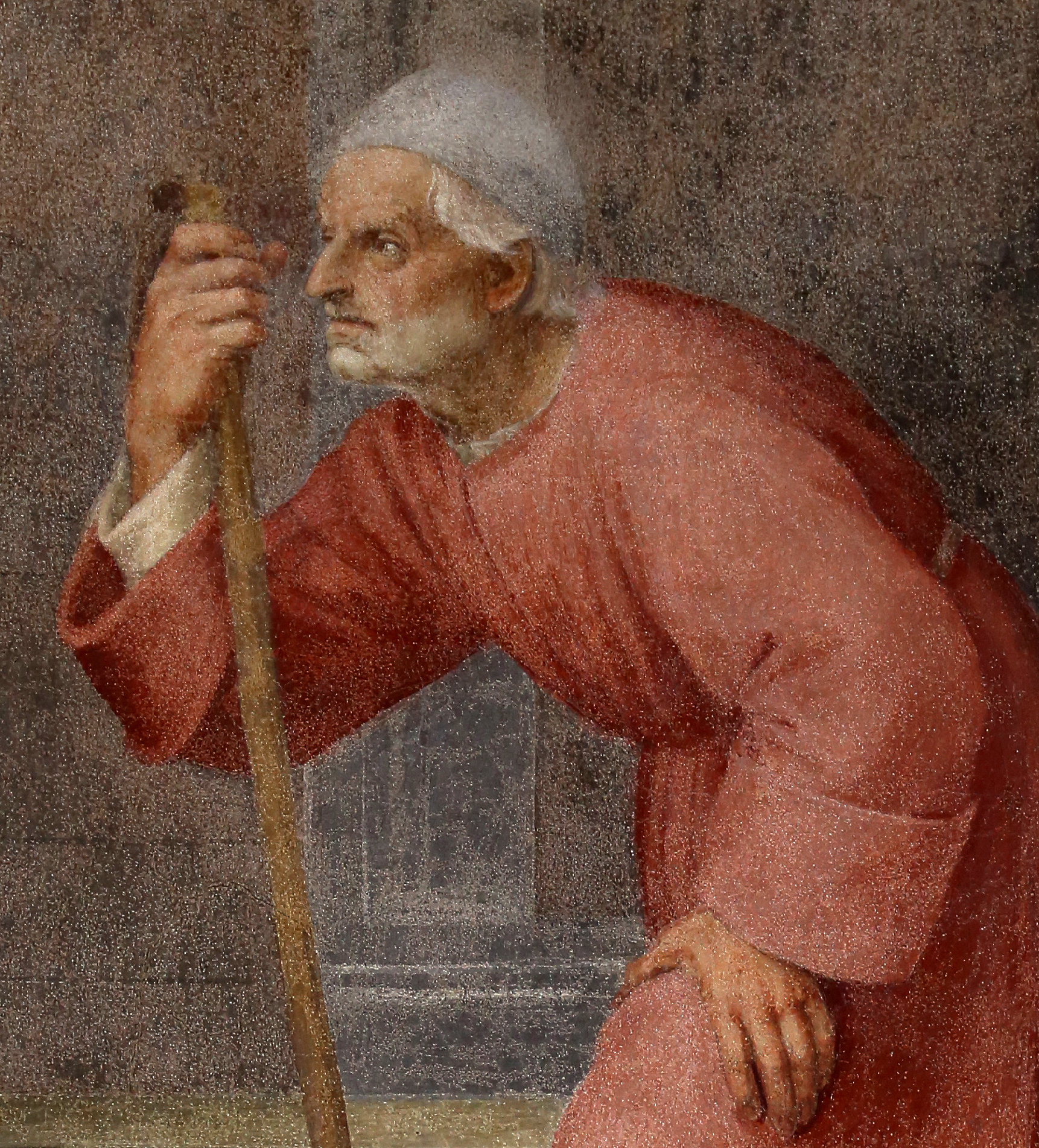 Chiostro dei Voti